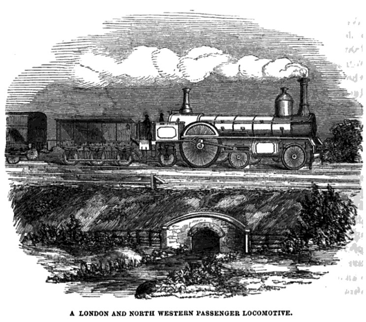 London and North Western passenger locomotive - circa 1852 illustration Our Iron Roads: Their History, Construction and Social Influences, by Frederick S. Williams] London and North Western Railway